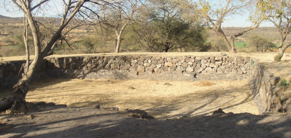 Peralta Main Structure External Patio 2